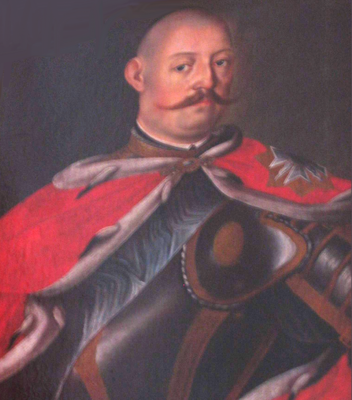 Portrait of Jan Ansgary Radziwiłł (1721-1754)